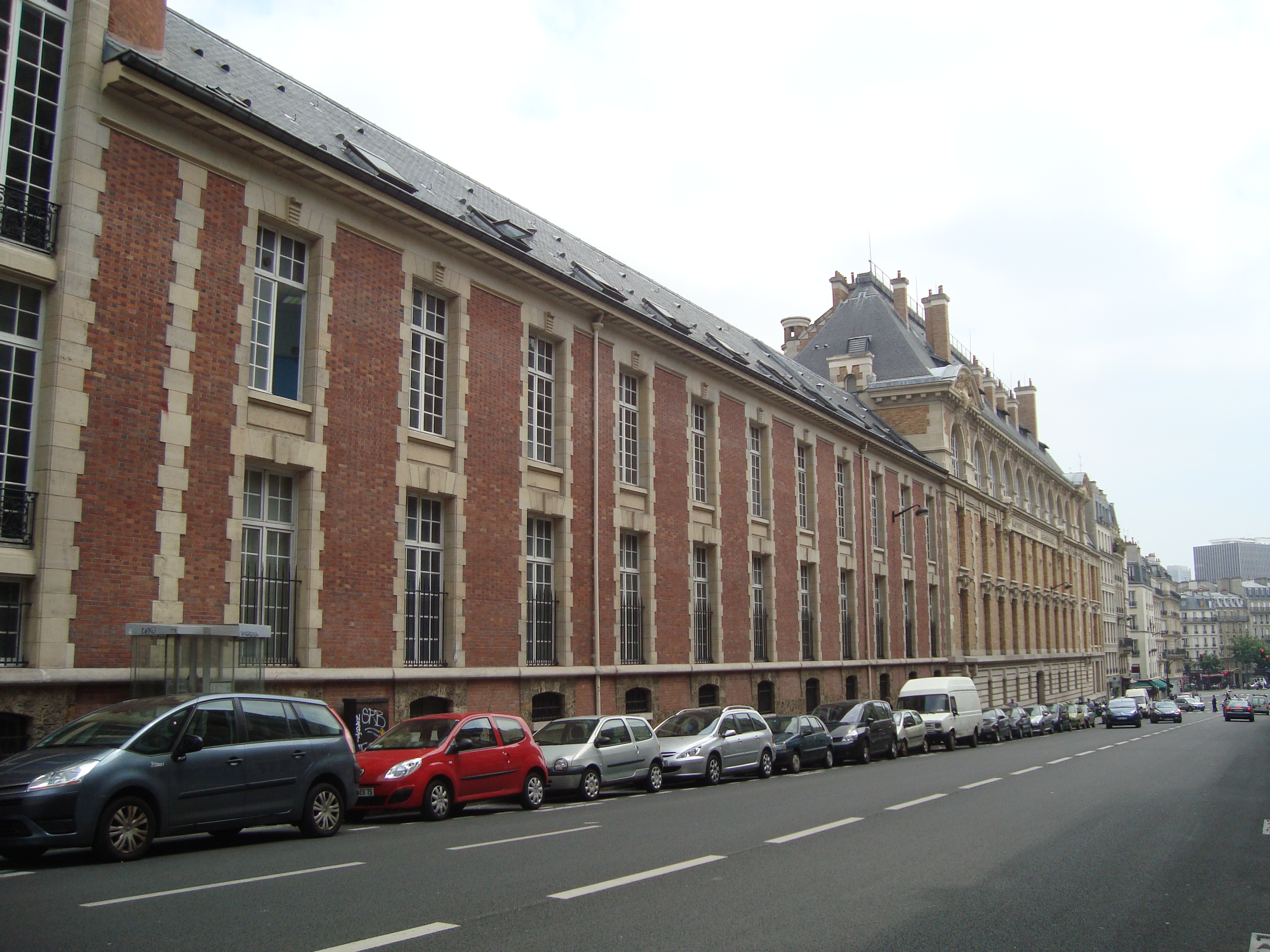 View of the Institut national d'agronomie at rue Claude-Bernard in Paris